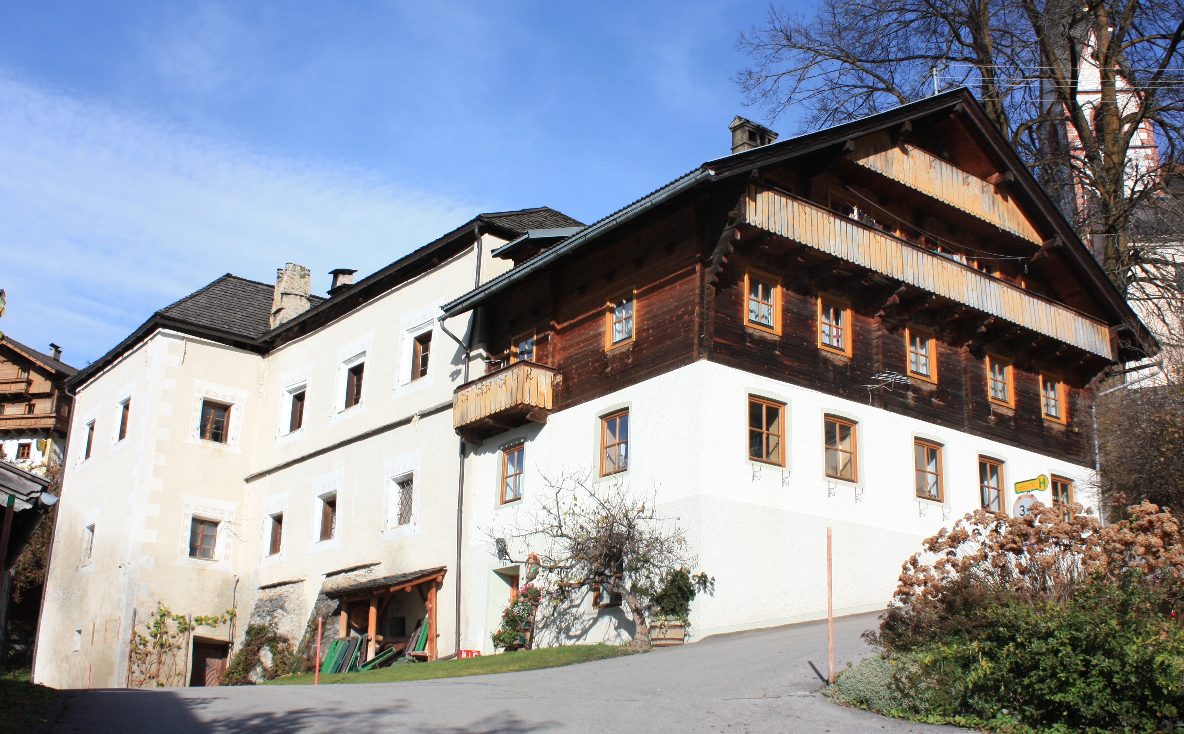 Litzelhof in Sagritz in the community of Großkirchheim